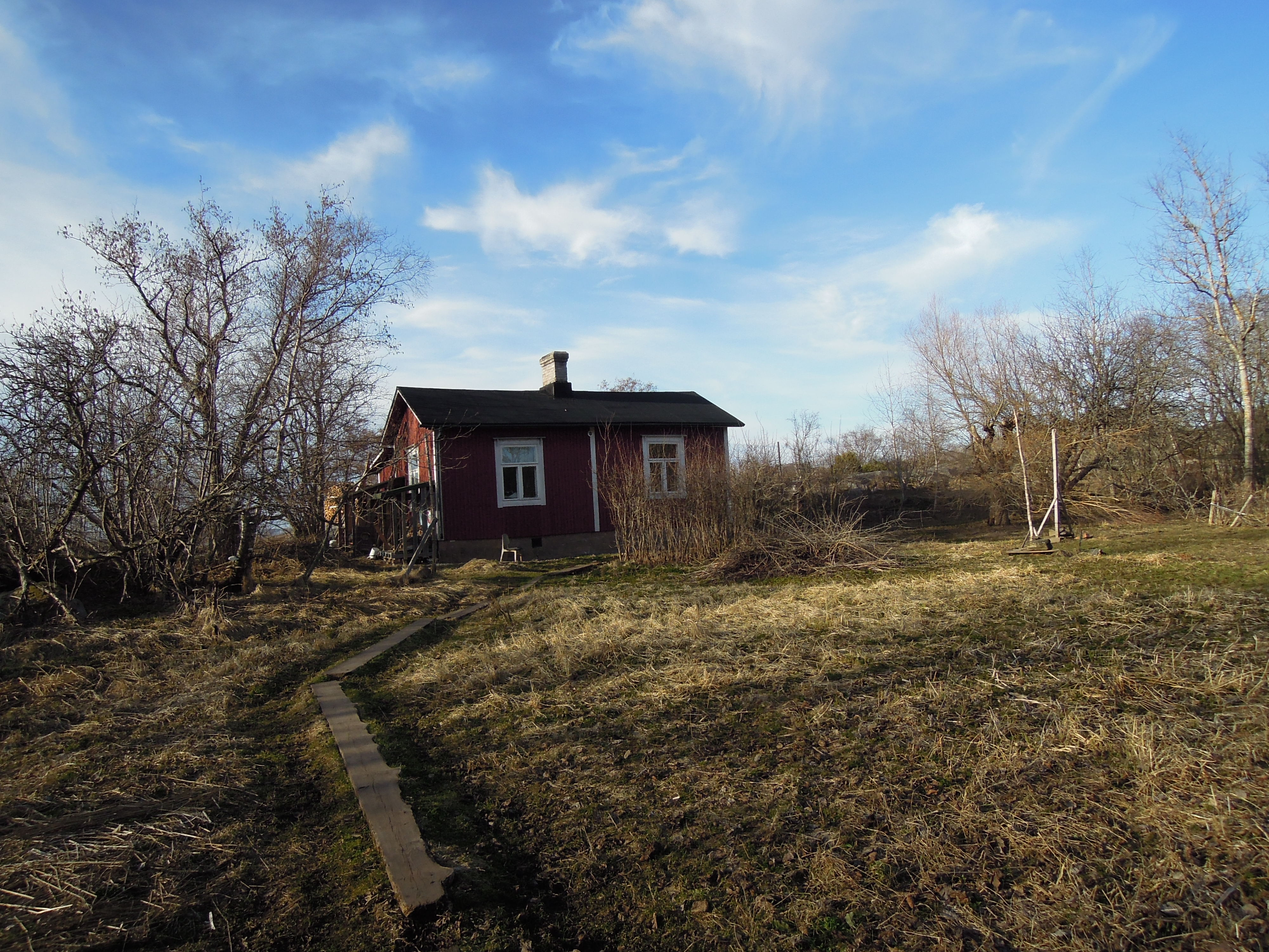 The main building of Hanko Bird Observatory viewed from the back yard in spring 2013.